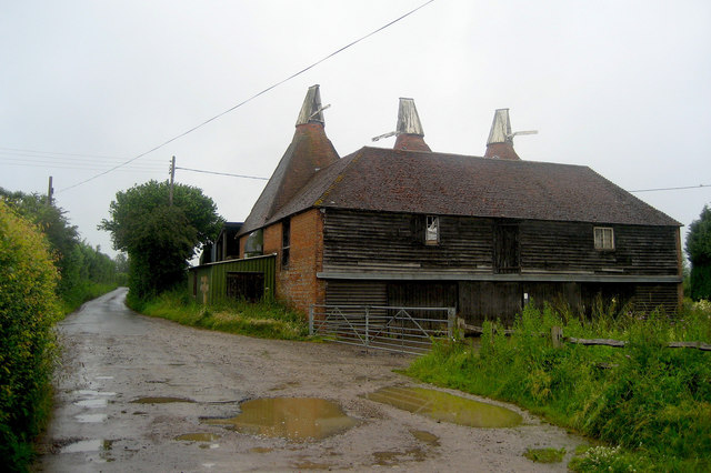 Oast House at Redlands Farm, Redlands Lane, Salehurst, East Sussex